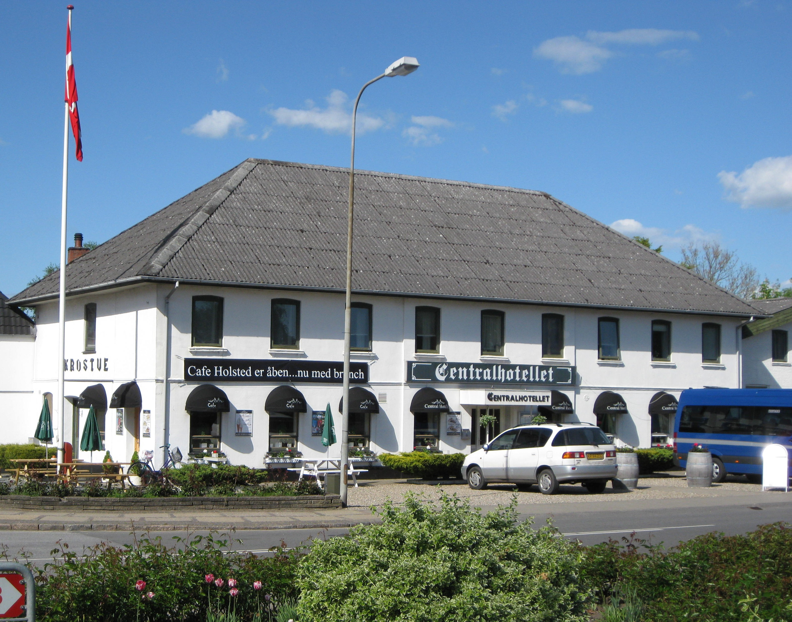 The hotel "Centralhotellet" in the small town "Holsted". The town is located in Vejen Kommune, South-Central Jutland, Denmark.